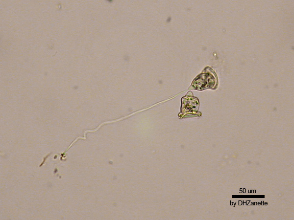 A vorticella reproducing by cell division.